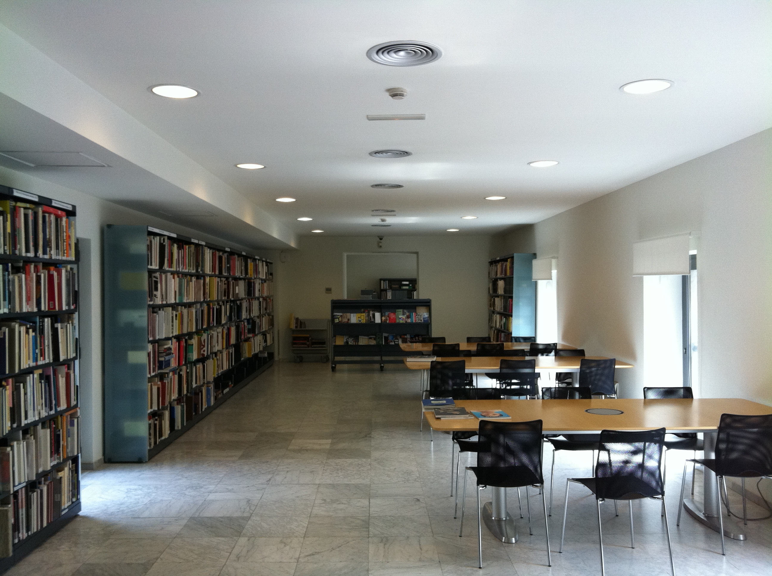 Library of the Museu Picasso